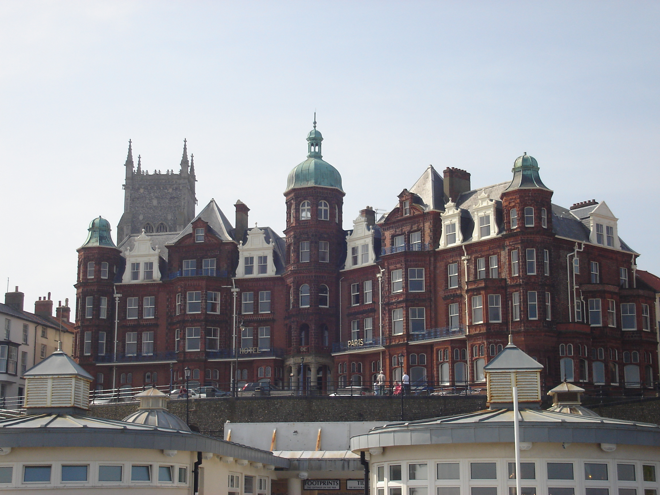 Picture of Hotel De Paris Cromer, Norfolk